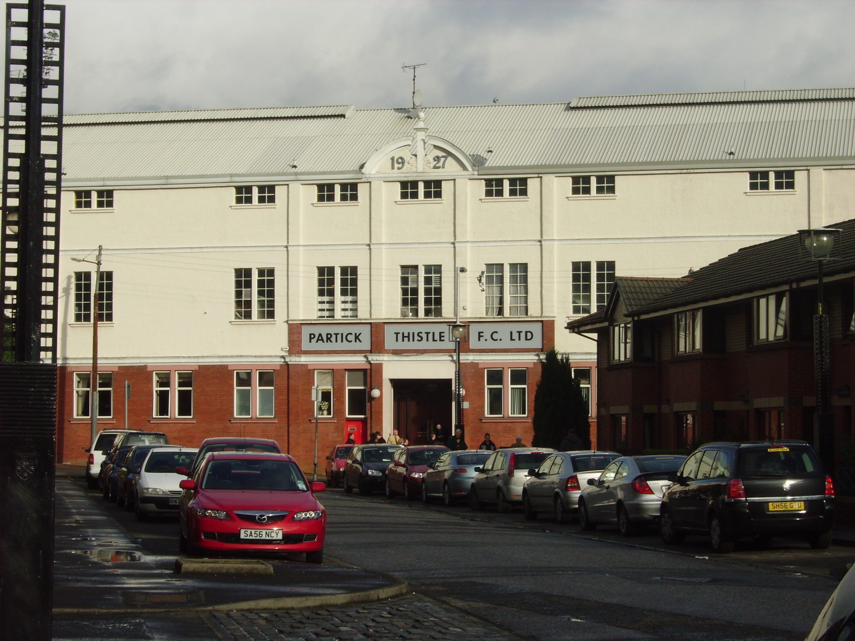 Firhill Stadium, Glasgow, Scotland: home of the Partick Thistle Football Club.